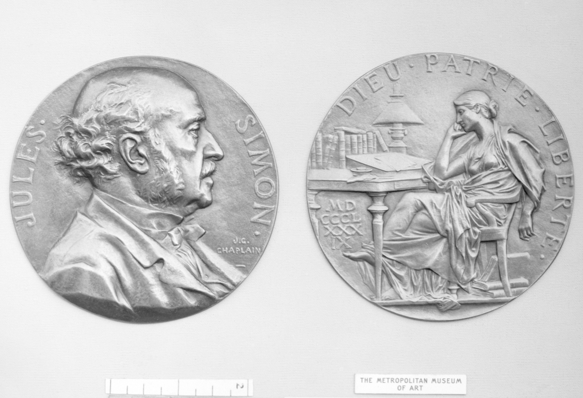 French; Medallion; Medals and Plaquettes